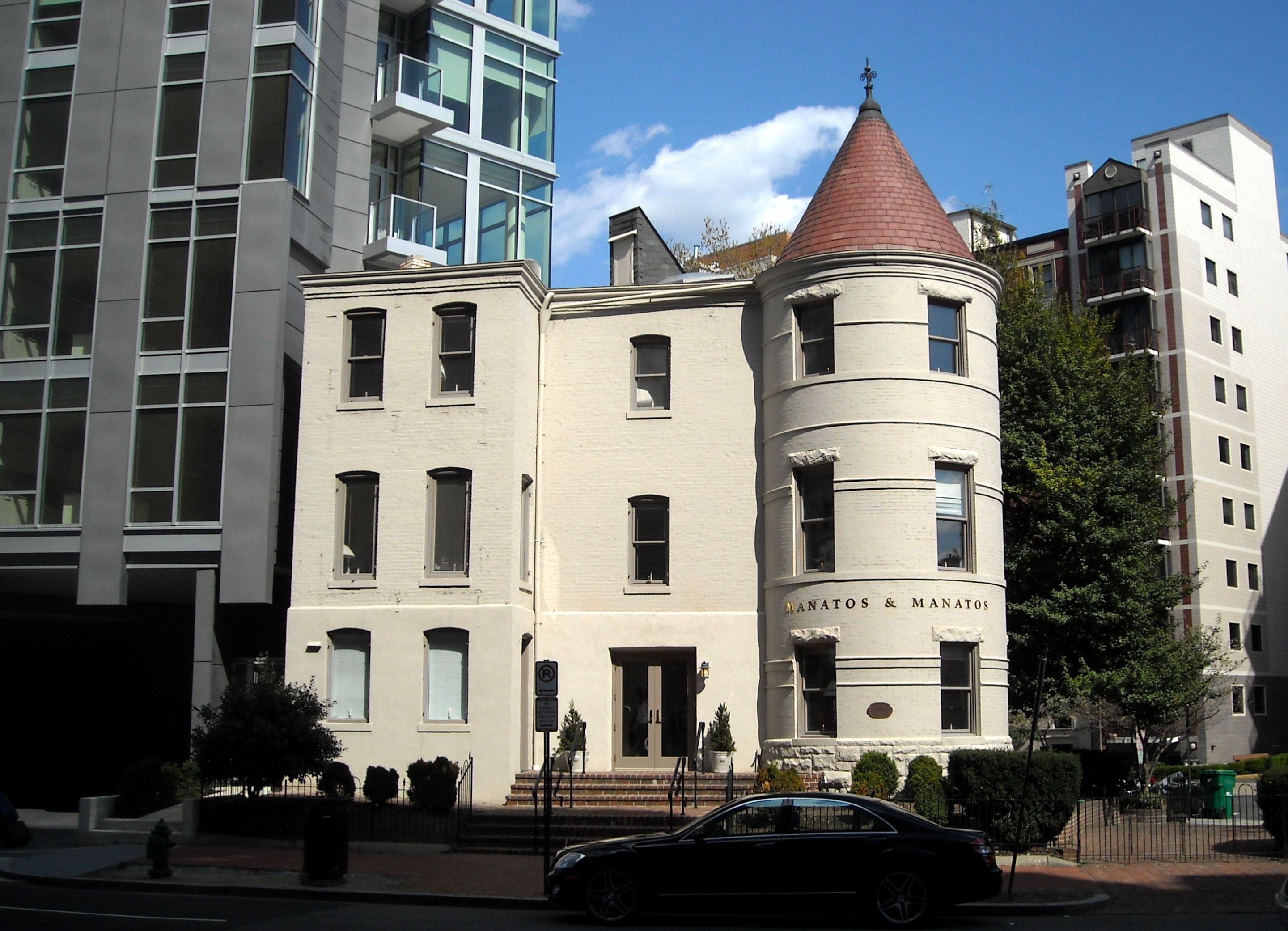 1100 New Hampshire Avenue, N.W., located in the West End neighborhood of Washington, D.C. Built as a private residence in 1902, the Queen Anne-style home was converted into office space in the 1970s. Current tenants of 1100 New Hampshire Avenue, N.W., include Democratic lobbying firm Manatos & Manatos, Greek American interest group the National Coordinated Effort of Hellenes, and the Committee for Citizen Awareness.